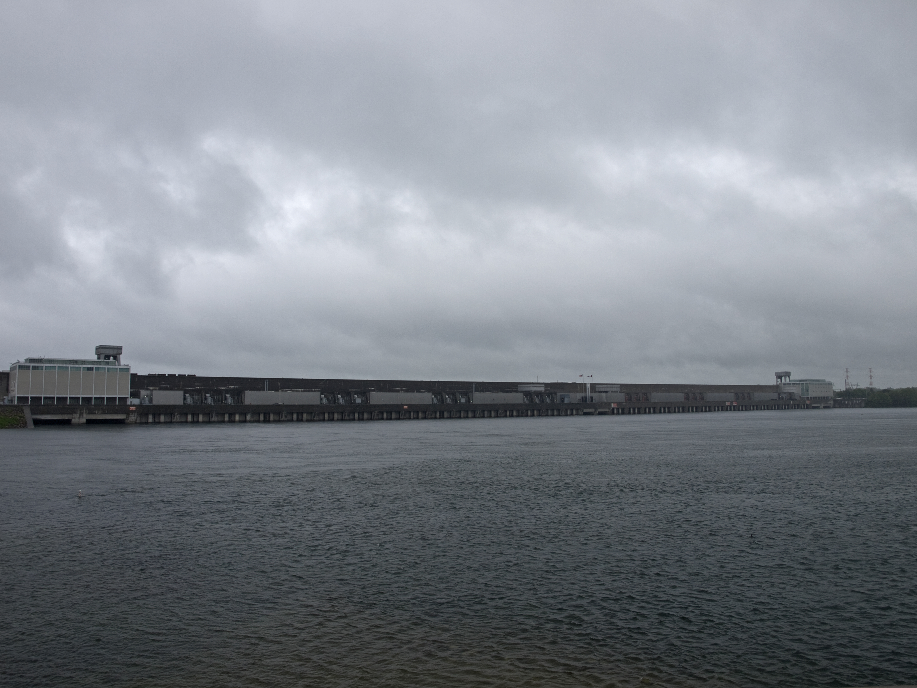 Panorama of the Moses Saunders Dam from the American side